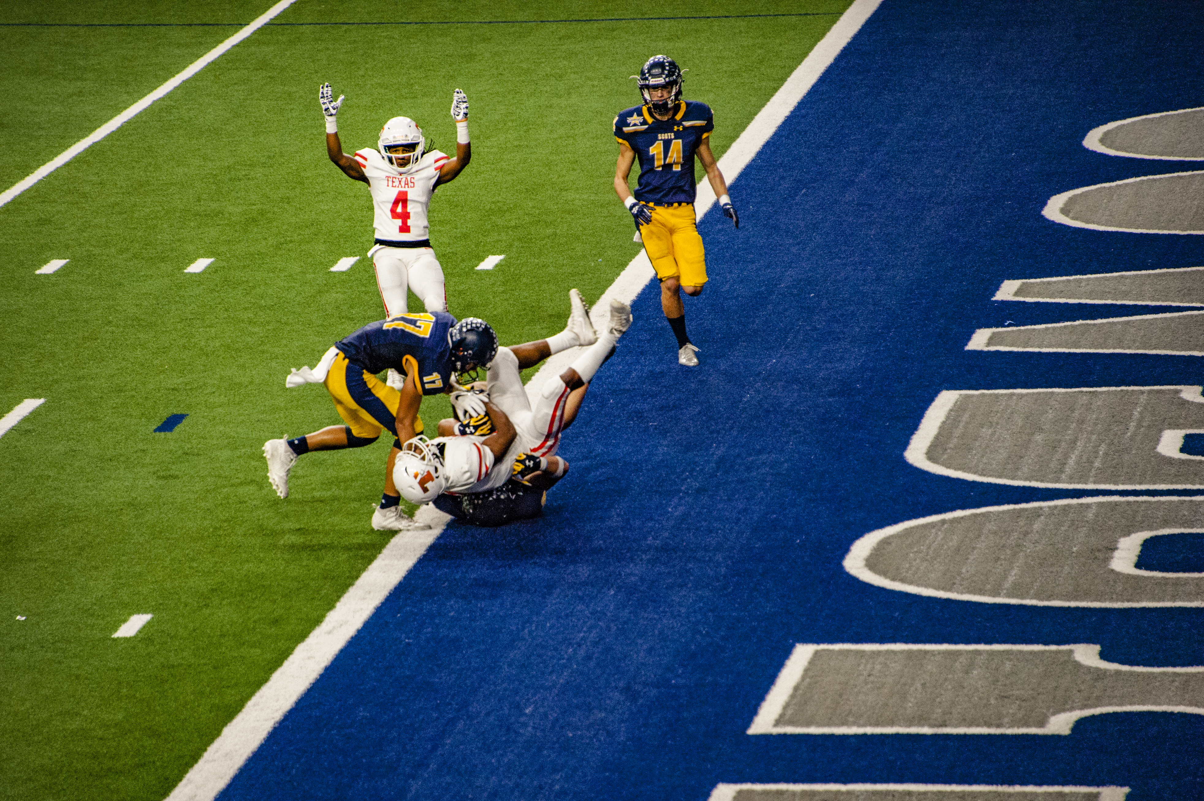 Texas High School scores a touchdown against Highland Park High School in the first round of the 2017 UIL state championship. Highland Park ultimately won the match-up with a score of 56-49.